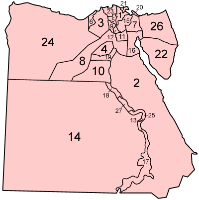 Map of the governorates of Egypt, in alphabetical order (Arabic transliterated to English). Made by User:Golbez based on PD maps.